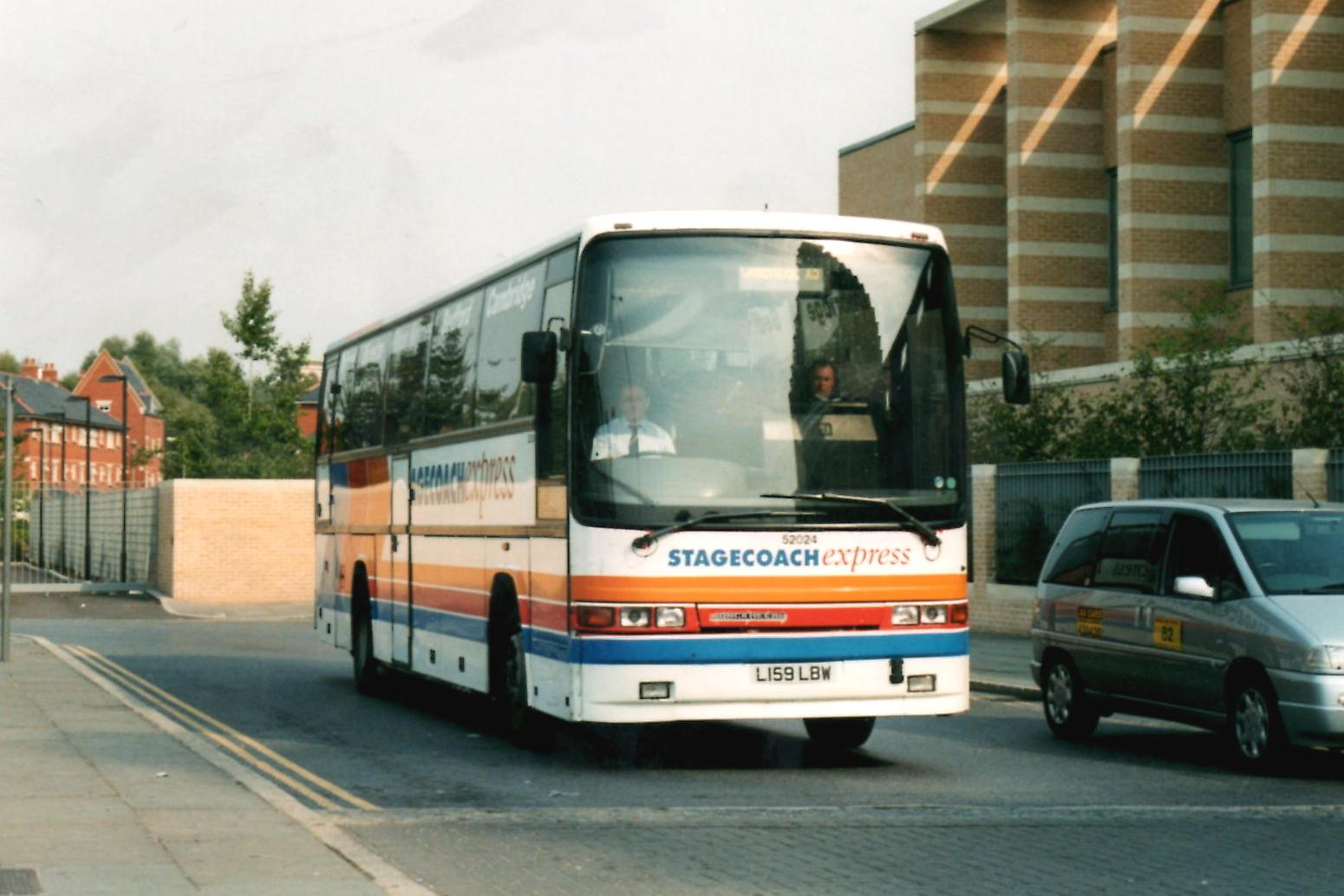 Stagecoach in Bedford 52024, a 1994 Volvo B10M with Jonckheere bodywork, at Oxford railway station on Stagecoach bus route X5 in October 2003. Bought new for theOxford Tube service, it is branded for route X5, but had been displaced from the route in 2002 by newer Plaxton-bodied B10Ms. Route X5 no longer serves Oxford railway station, having been curtailed to Gloucester Green bus station in April 2007.